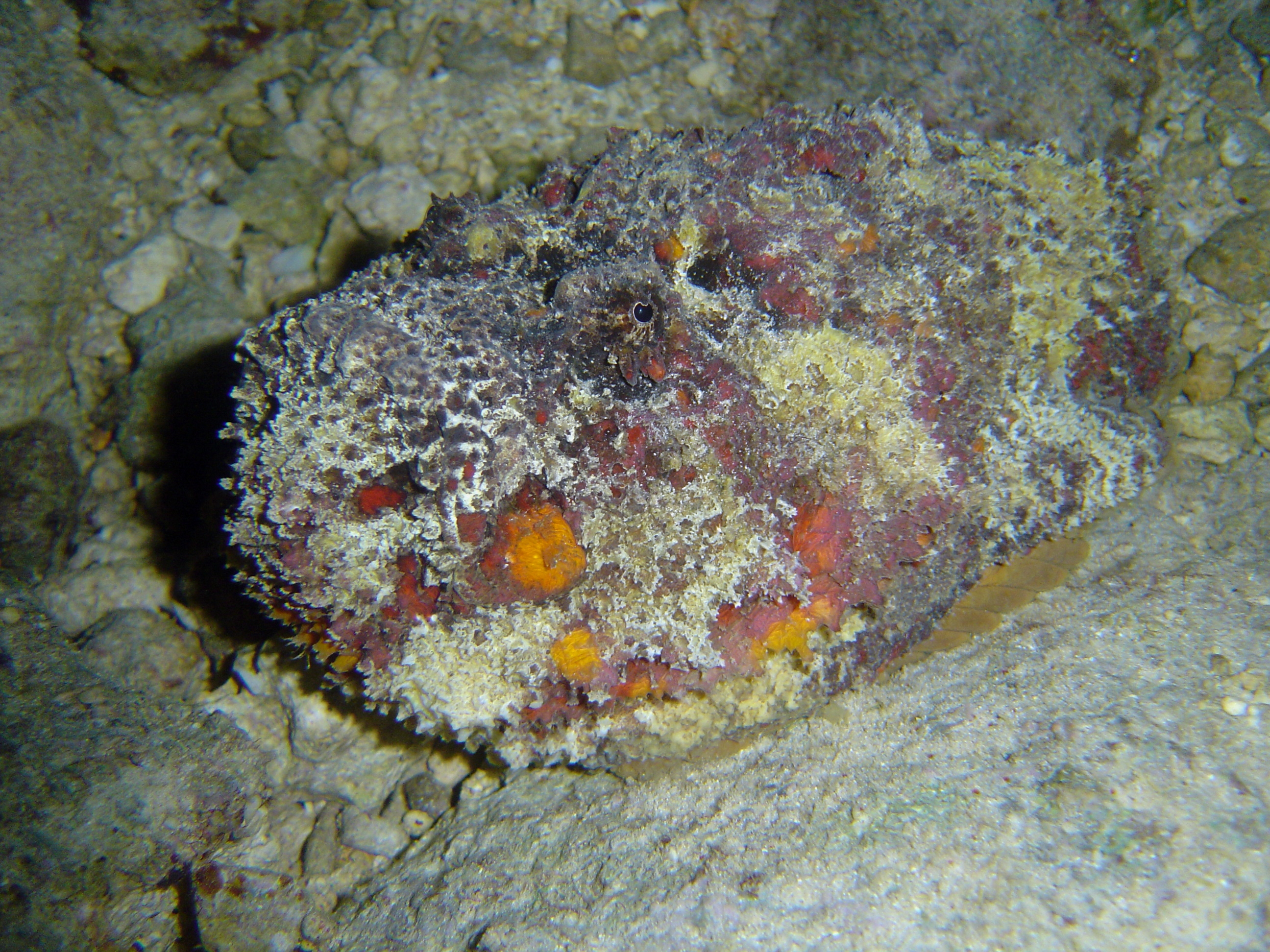 Reef stonefish (Synanceia verrucosa). Mariana Islands, Guam.